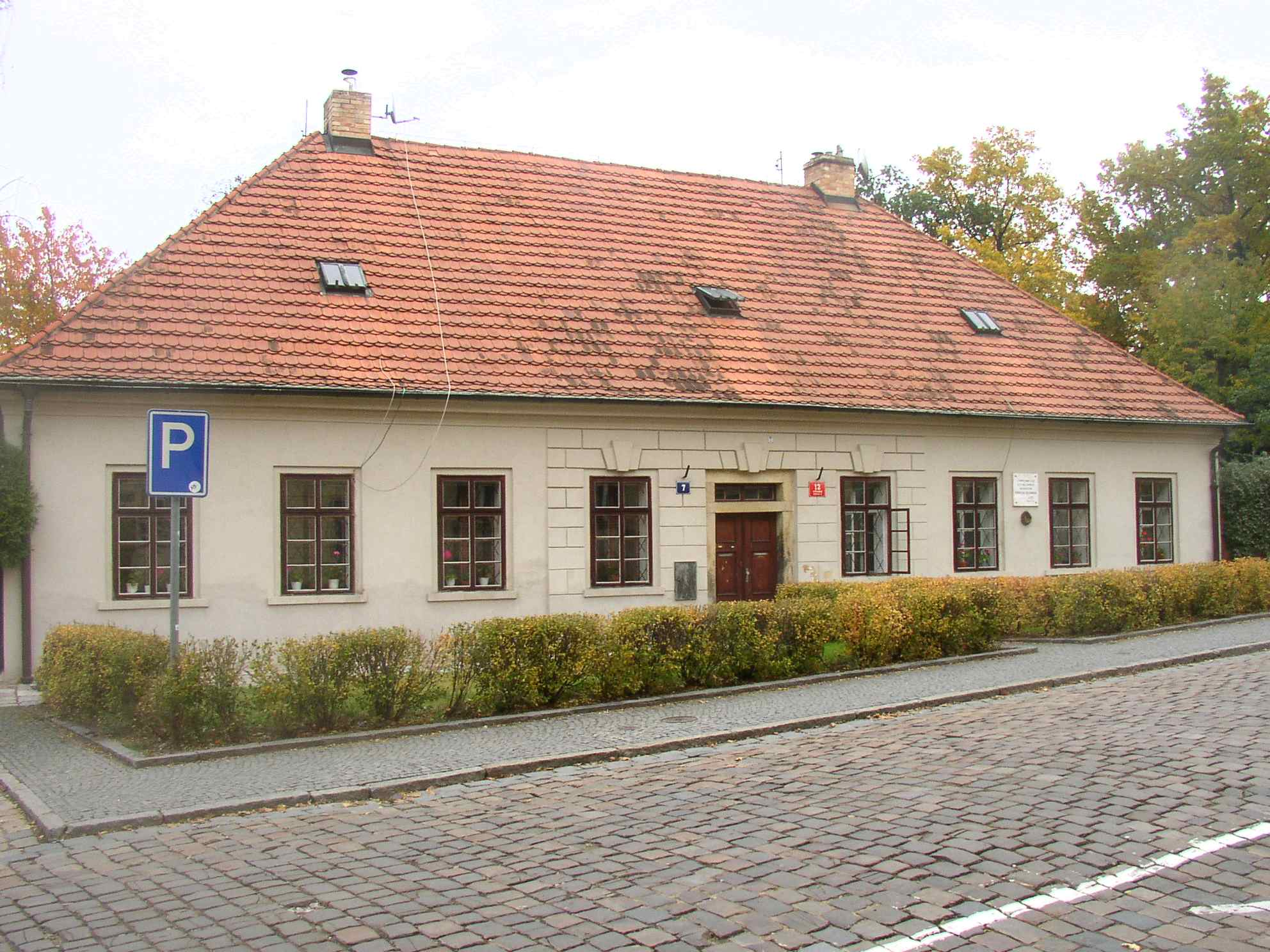 House of toll and excise collector in Vyšehrad, Prague, Czech Republic. Built in 1841, writer Popelka Biliánová lived here from 1890s till her death in 1941.